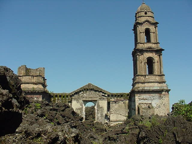 Remnants of the main church of San Juan Parangaricutiro, Mexico. The village was covered in lava and destroyed by the volcano Parícutin eruption in 1943–1952.